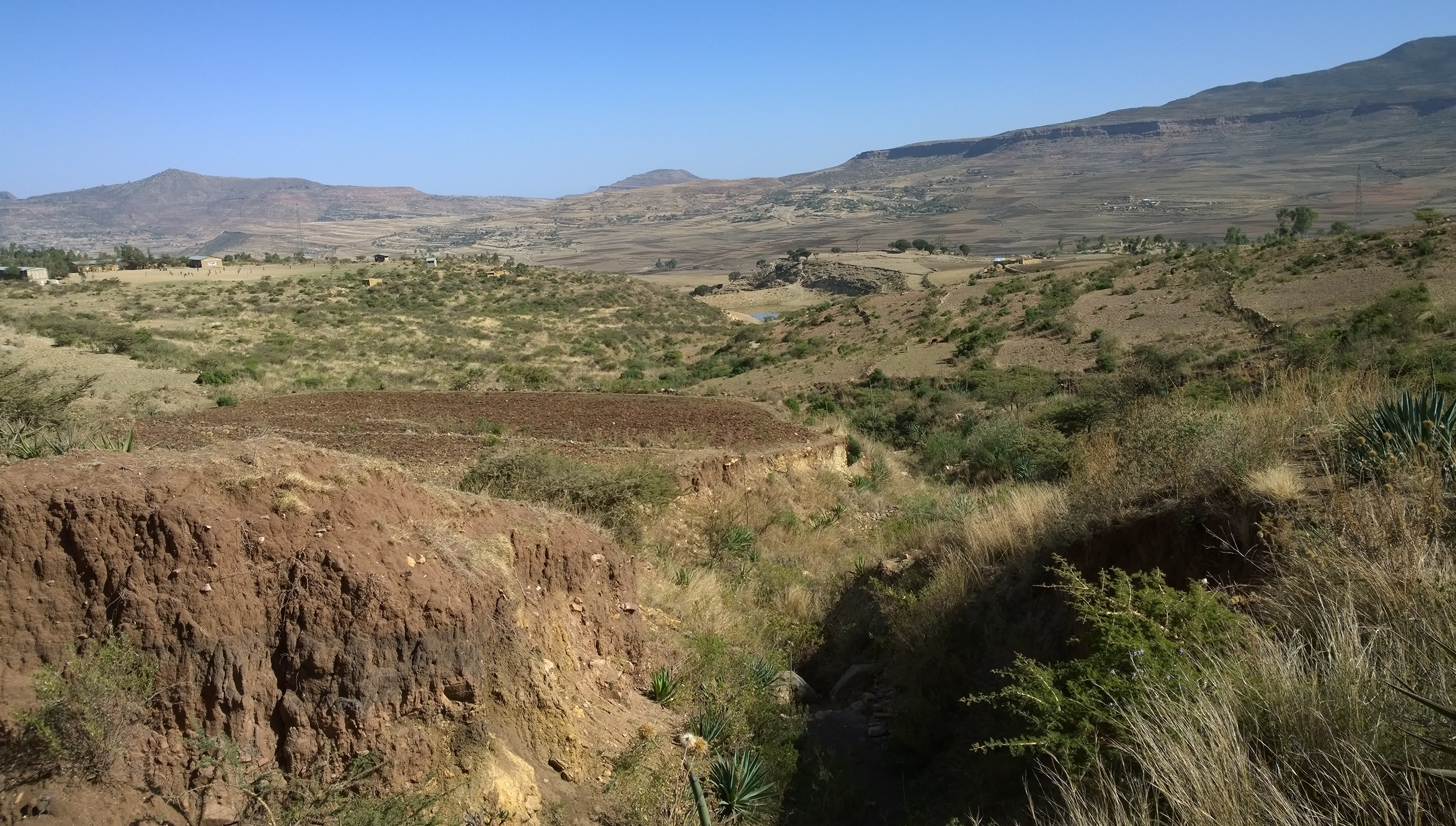 Giraliwdo